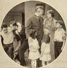 Still from the American film An Image of the Past (1915) with Charles Cosgrave and Seena Owen, and J.H. Allen in the back room. The names of the three child actors are not recorded. From page 9 of the March 27, 1915 Reel Life magazine. There were stills from several films on this page of the magazine, which added a number on each one.